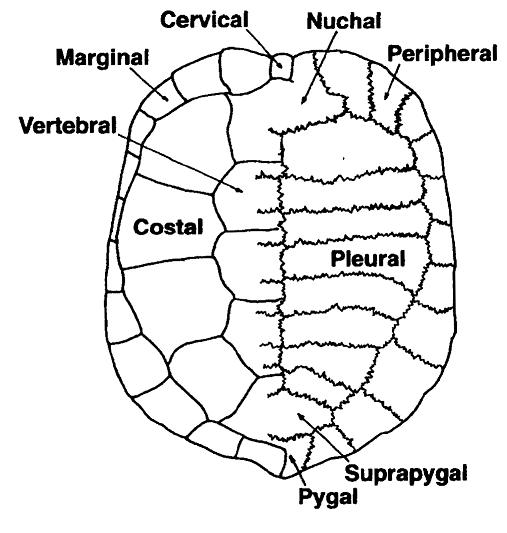 Carapace of Pseudemydura umbrina (Chelidae)